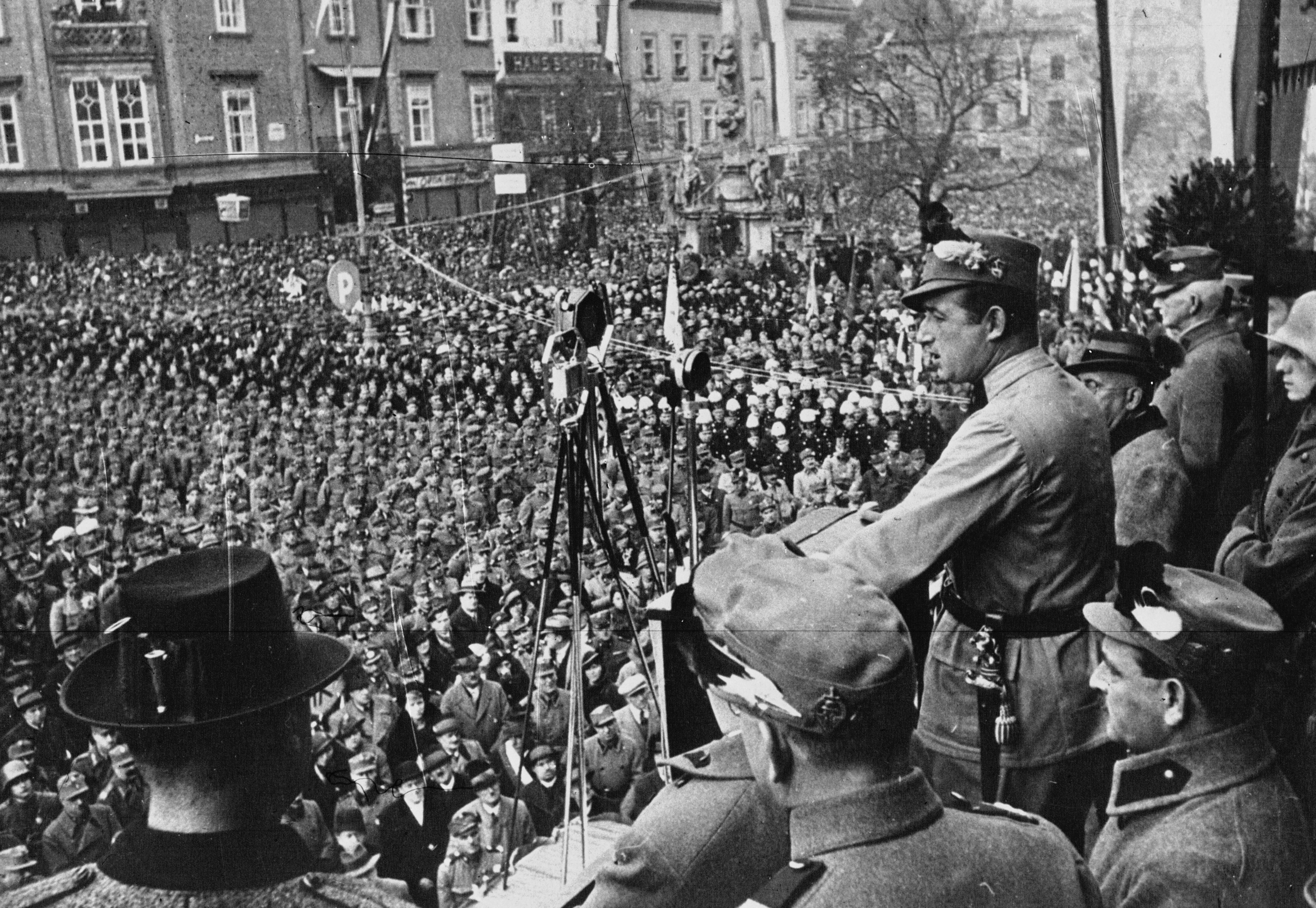 Austrian politician Ernst Rüdiger Starhemberg (1899-1956) addressing a rally in 1936.